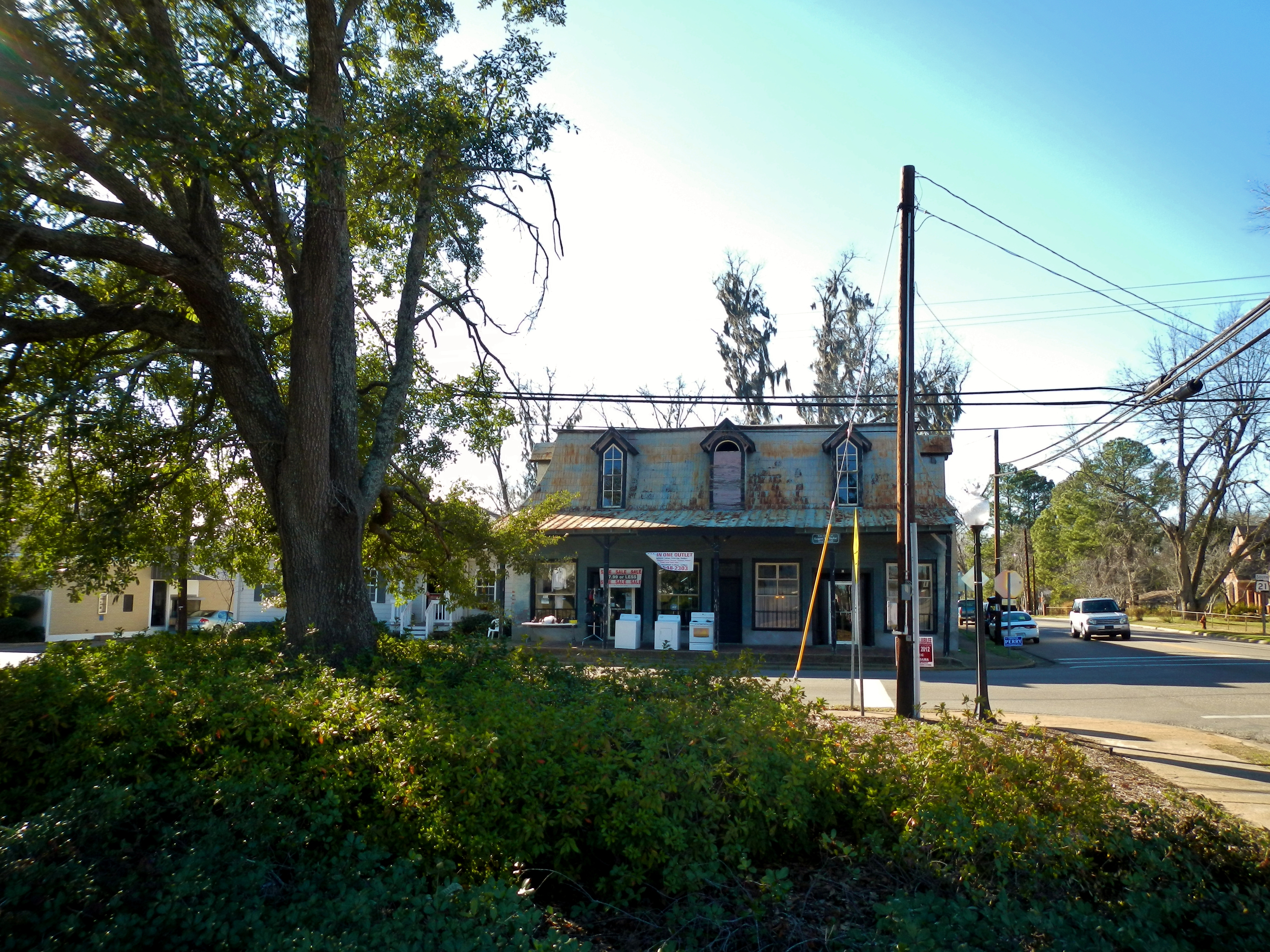 This is a photograph of Hayneville, Alabama.